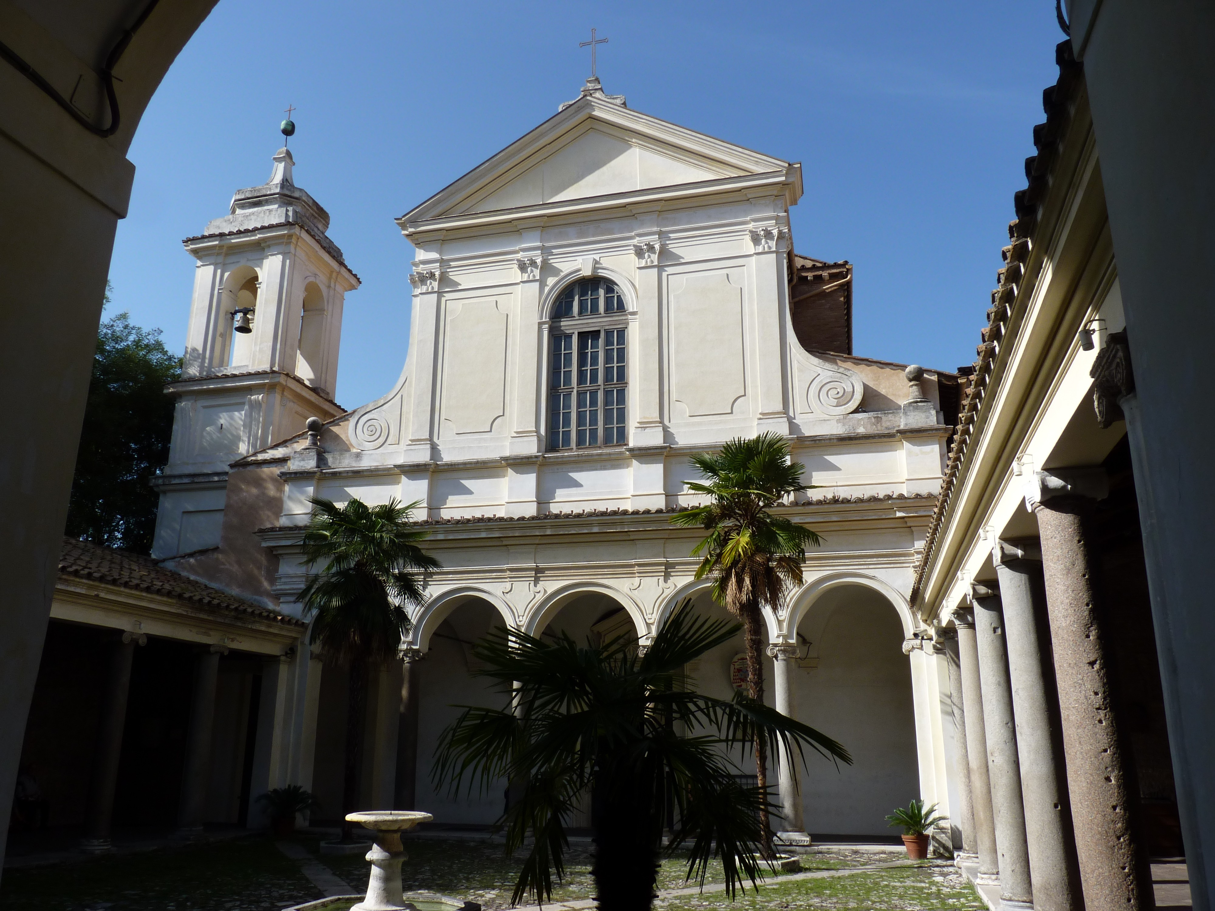 The facade and garden of Basilica San Clemente in Rome